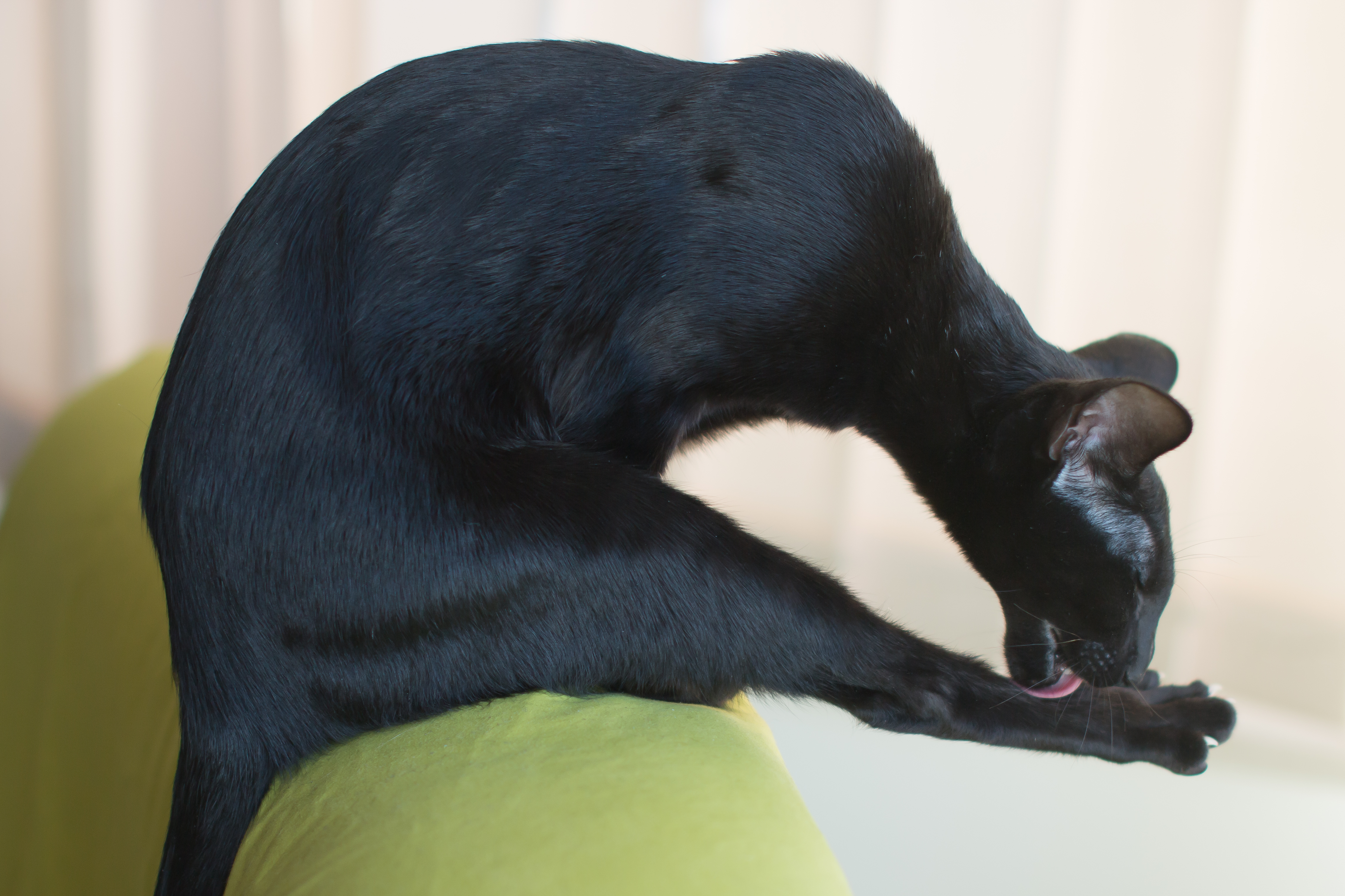 Cat (oriental shorthair) washing herself